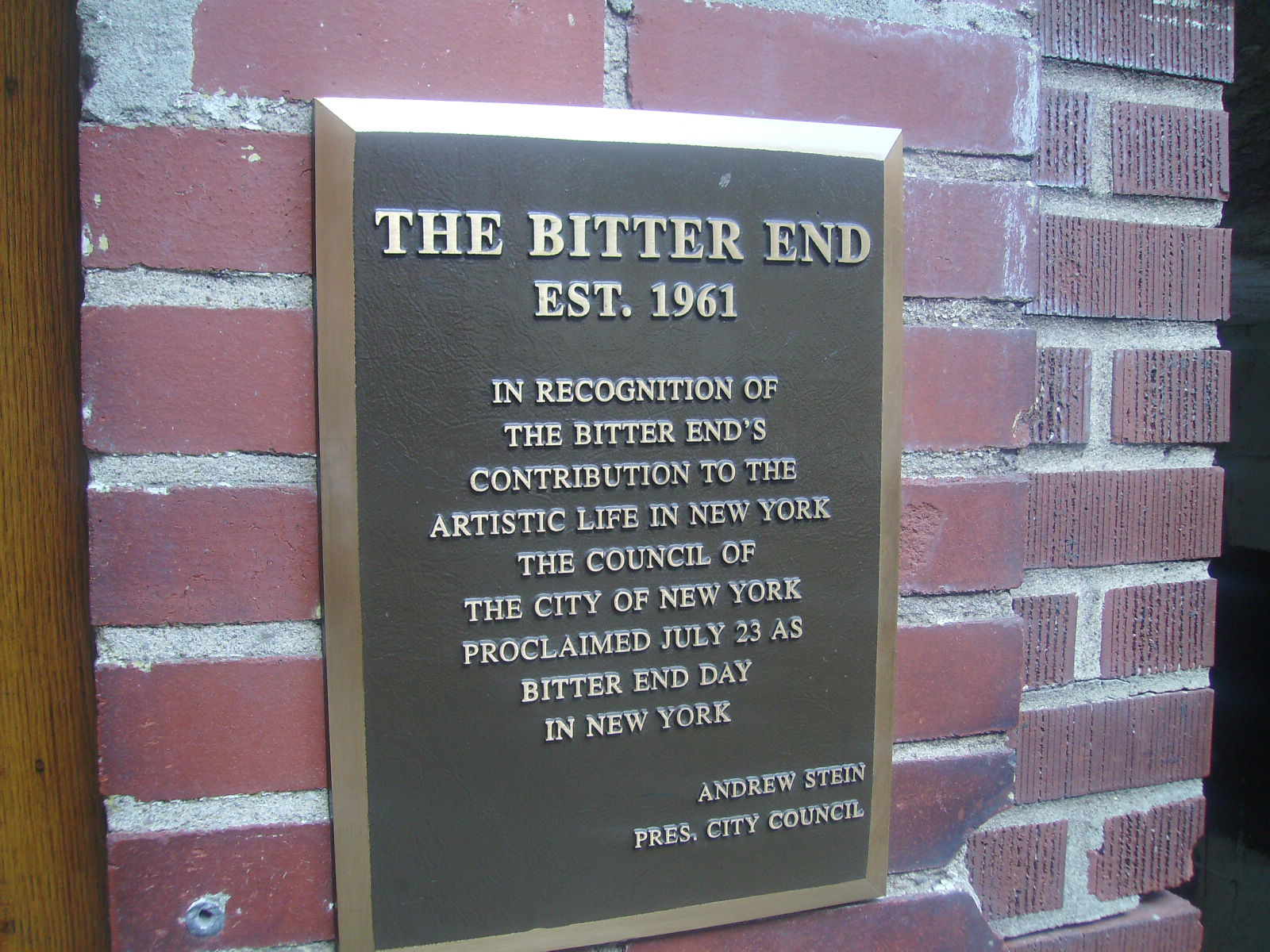 This photo is of Wikis Take Manhattan goal code F11, The Bitter End.